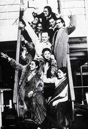 The Uday Shankar Ballet Troupe, ca (1935-37). Also seen at the bottom left Zohra Segal, who joined in August 1935, and toured with Uday Shankar till he returned to India, 1938.